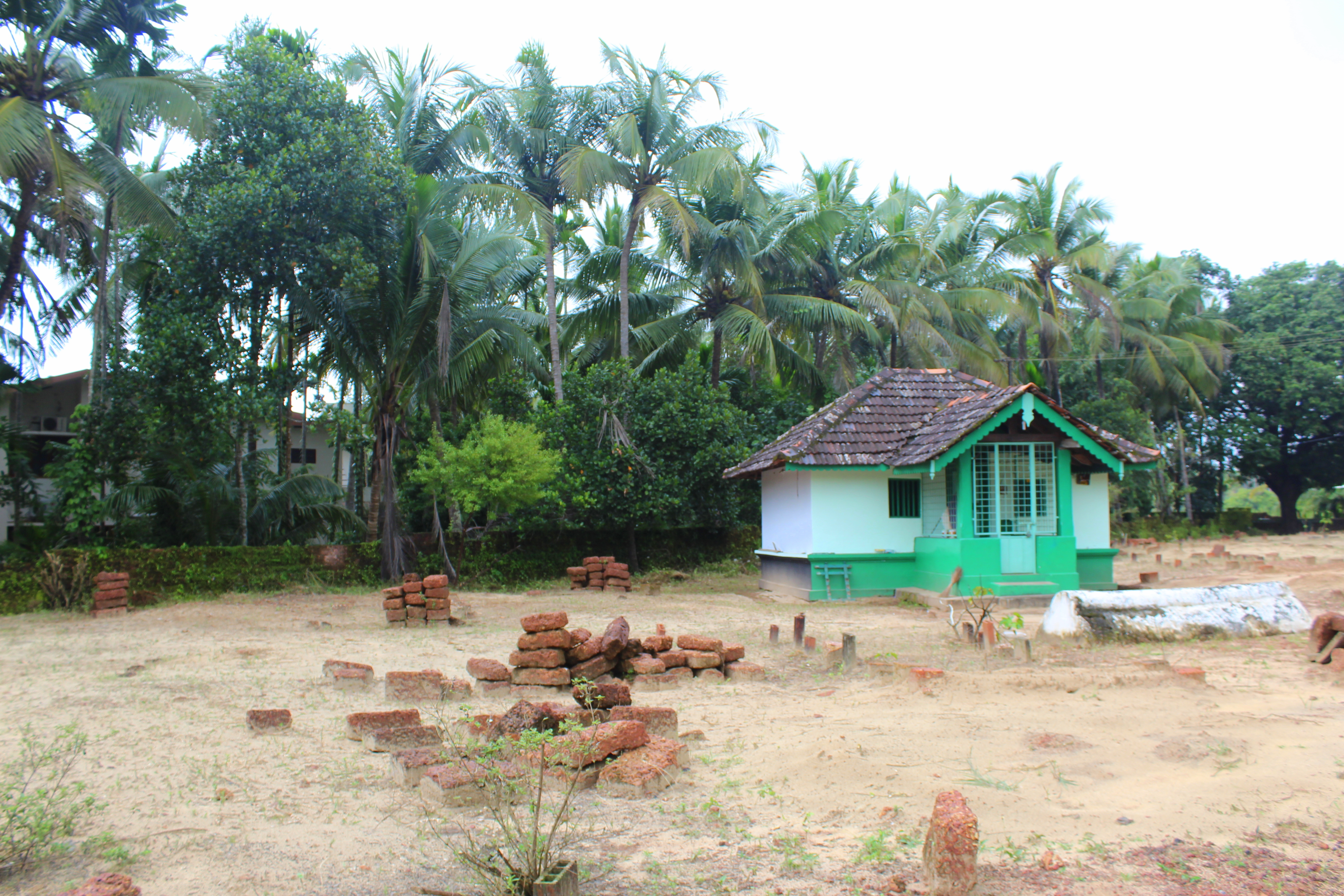 This media file is uploaded with Malayalam loves Wikimedia event - 3.